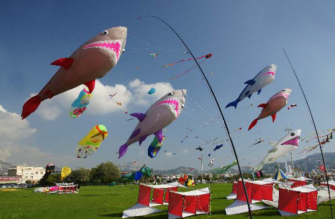 September - Fete wind Marseille